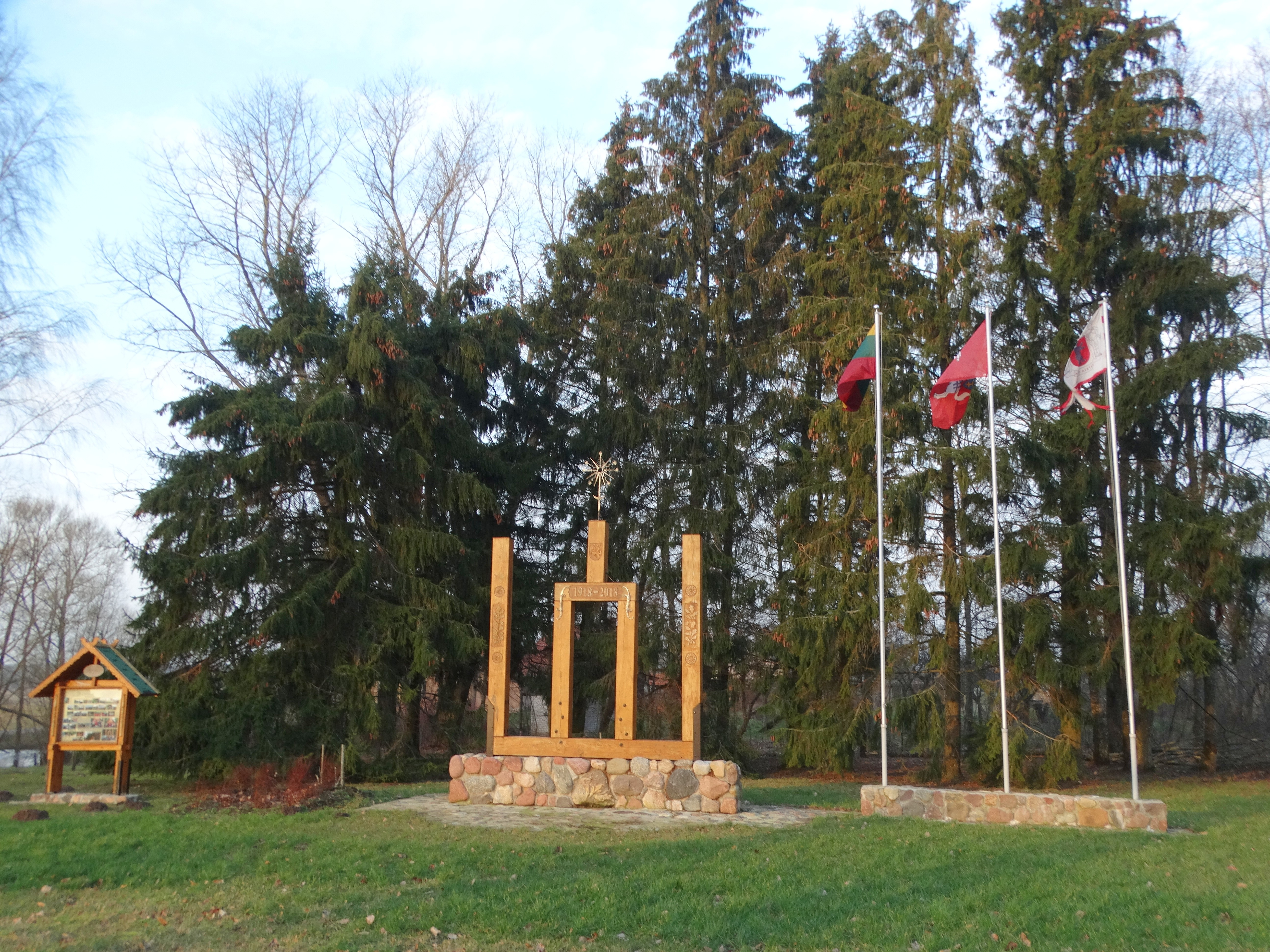 Senoji Įpiltis, Kretinga District, Lithuania